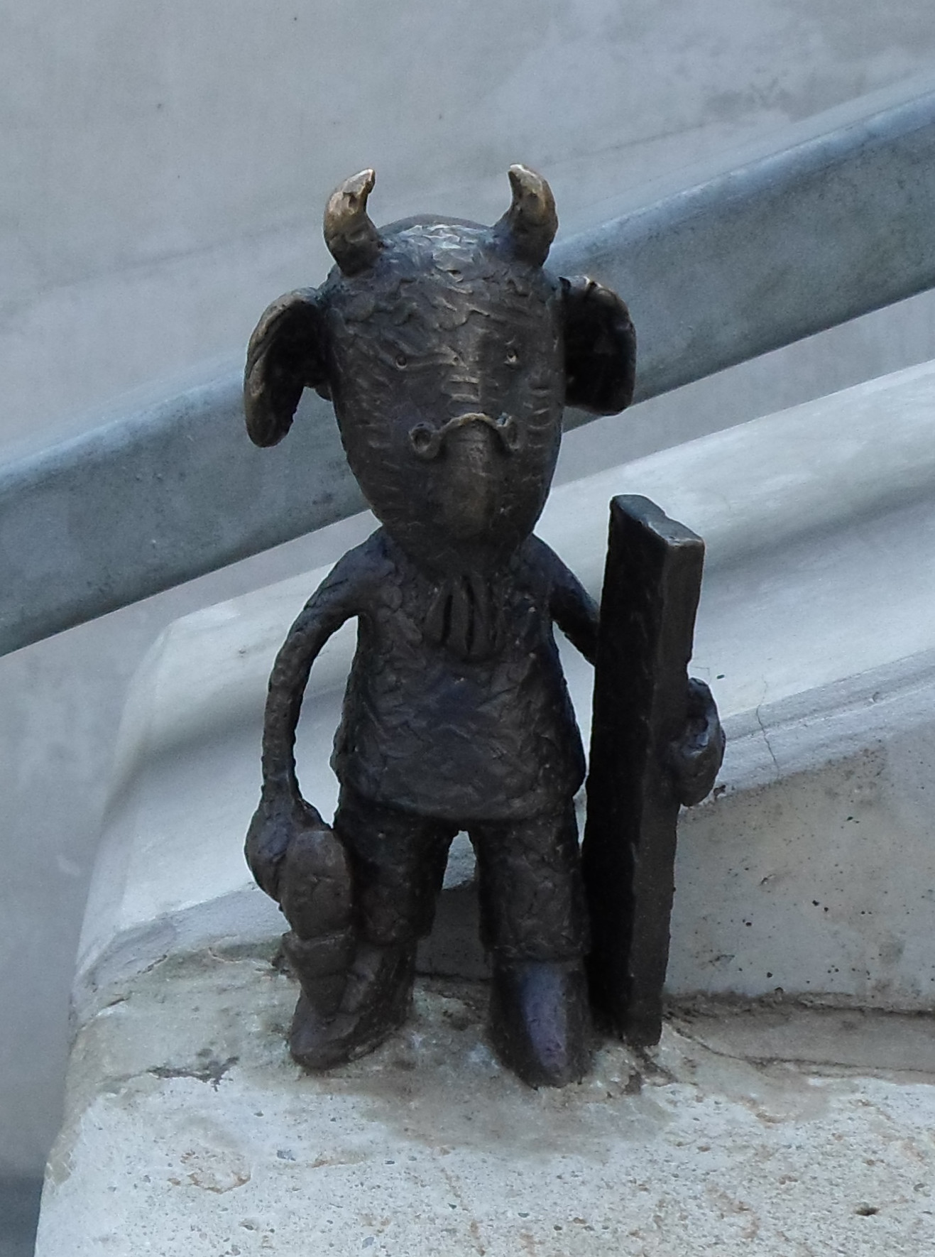 Mini sculpture by Mihail Kolodko "Mekk Elek"